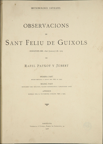 Meteorological observations from Sant Feliu de Guíxols town (1896-1905)